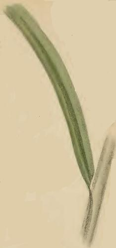 Stainton’s Natural History of the Tineina (1855–1873): Elachista atricomella mined leaf of Dactyls glomerata